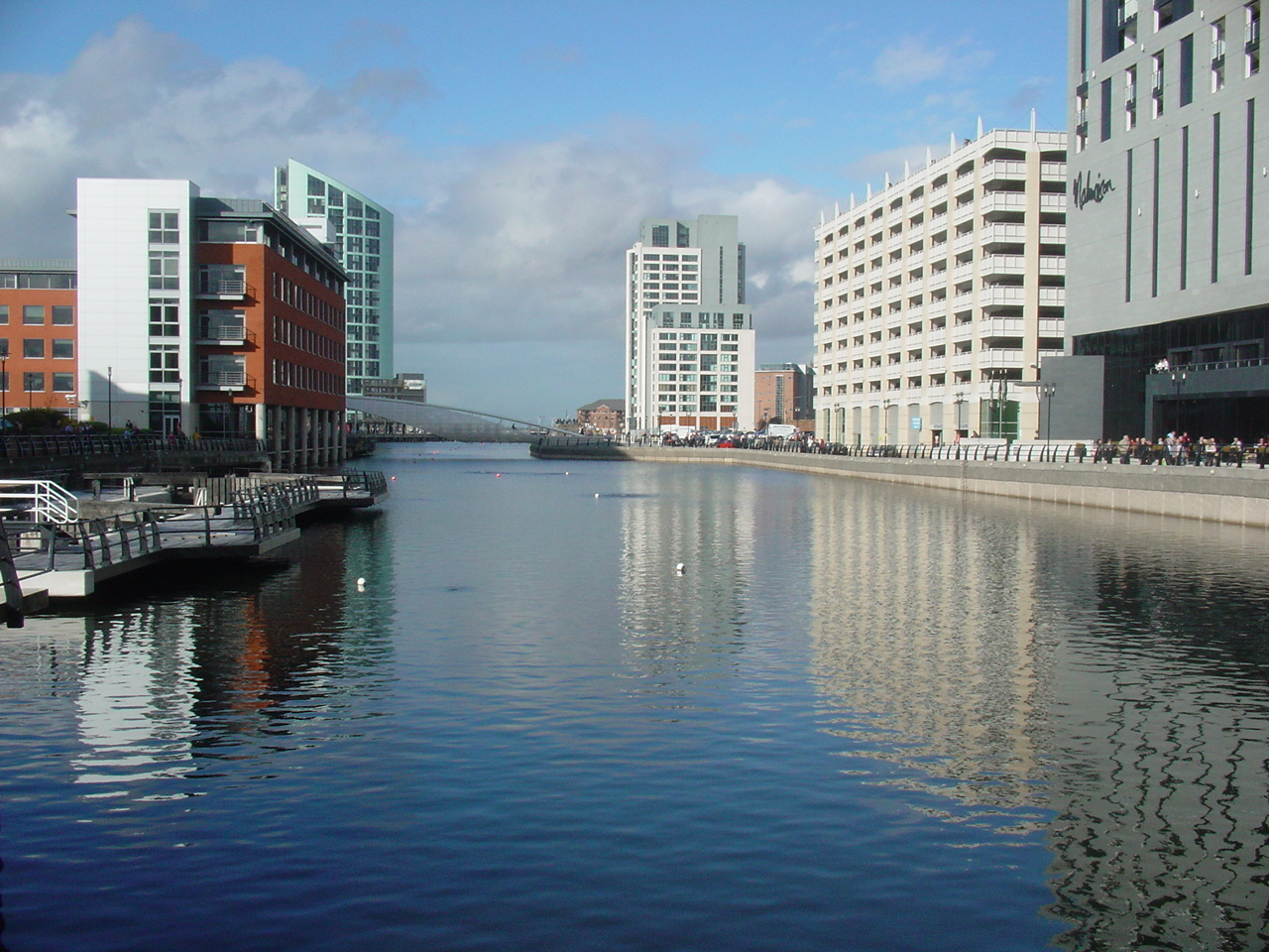 Princes Dock, Liverpool, England.